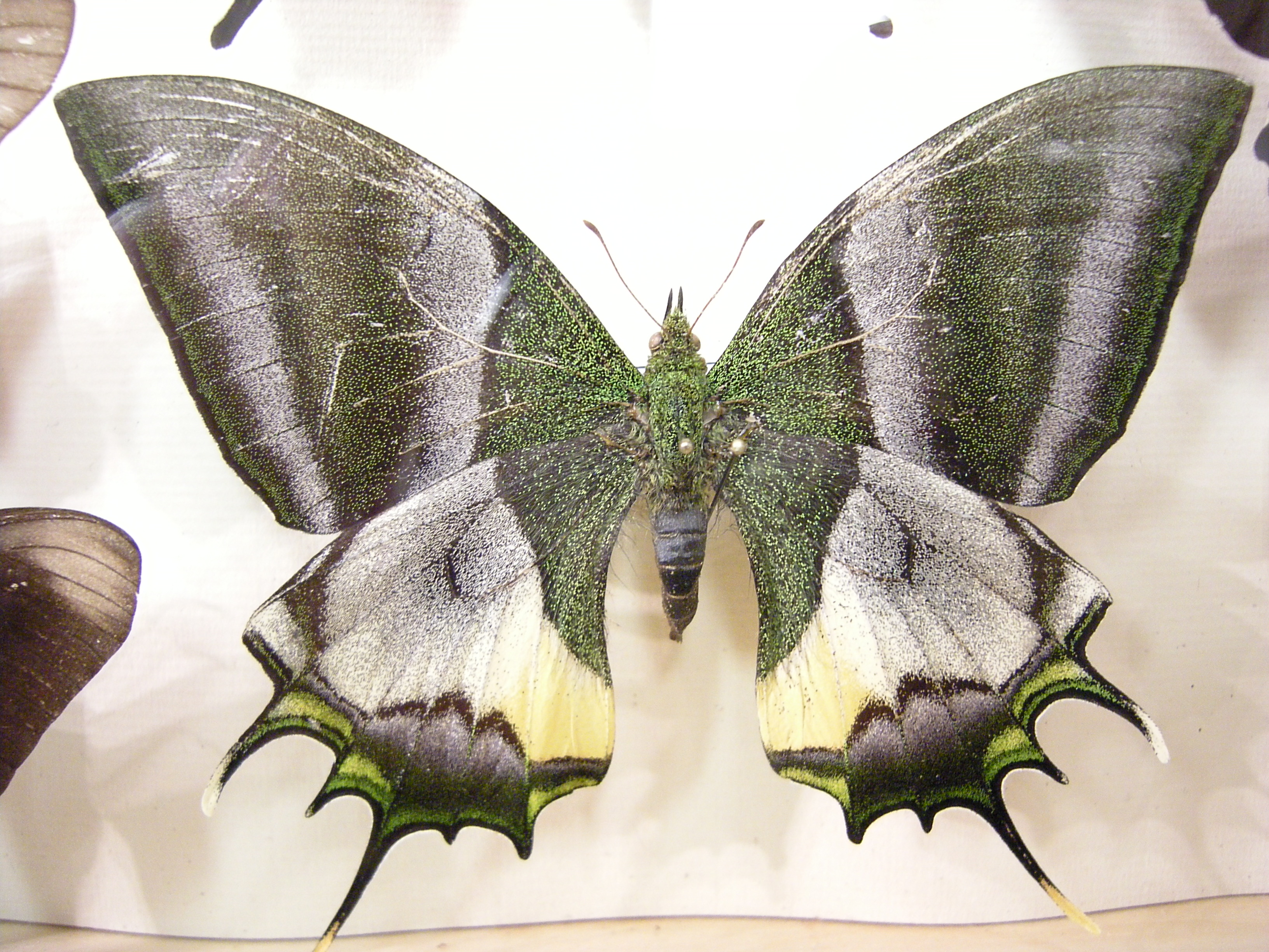 The Kaiser-i-Hind, (Teinopalpus imperialis). Part of Don Ehlen's "Insect Safari" collection. If you know more about the individual species here, please feel free to flesh out this description.